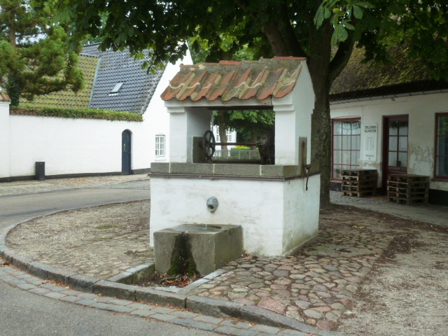 The well in Søllerød, Denmark